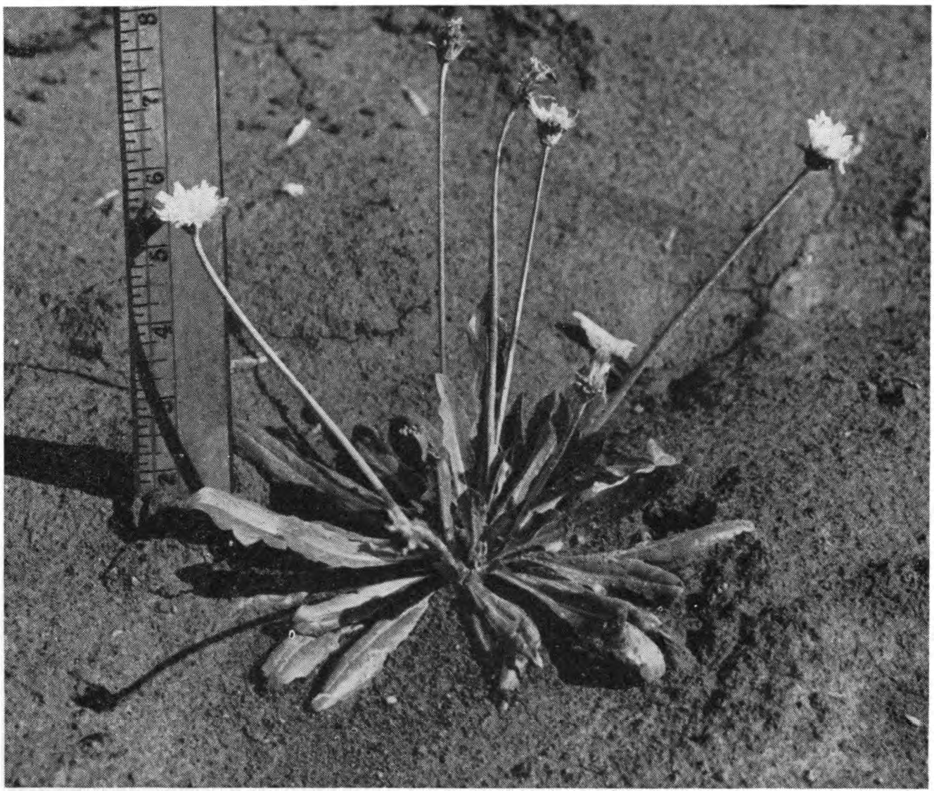 An American grown TKS from the 1940's